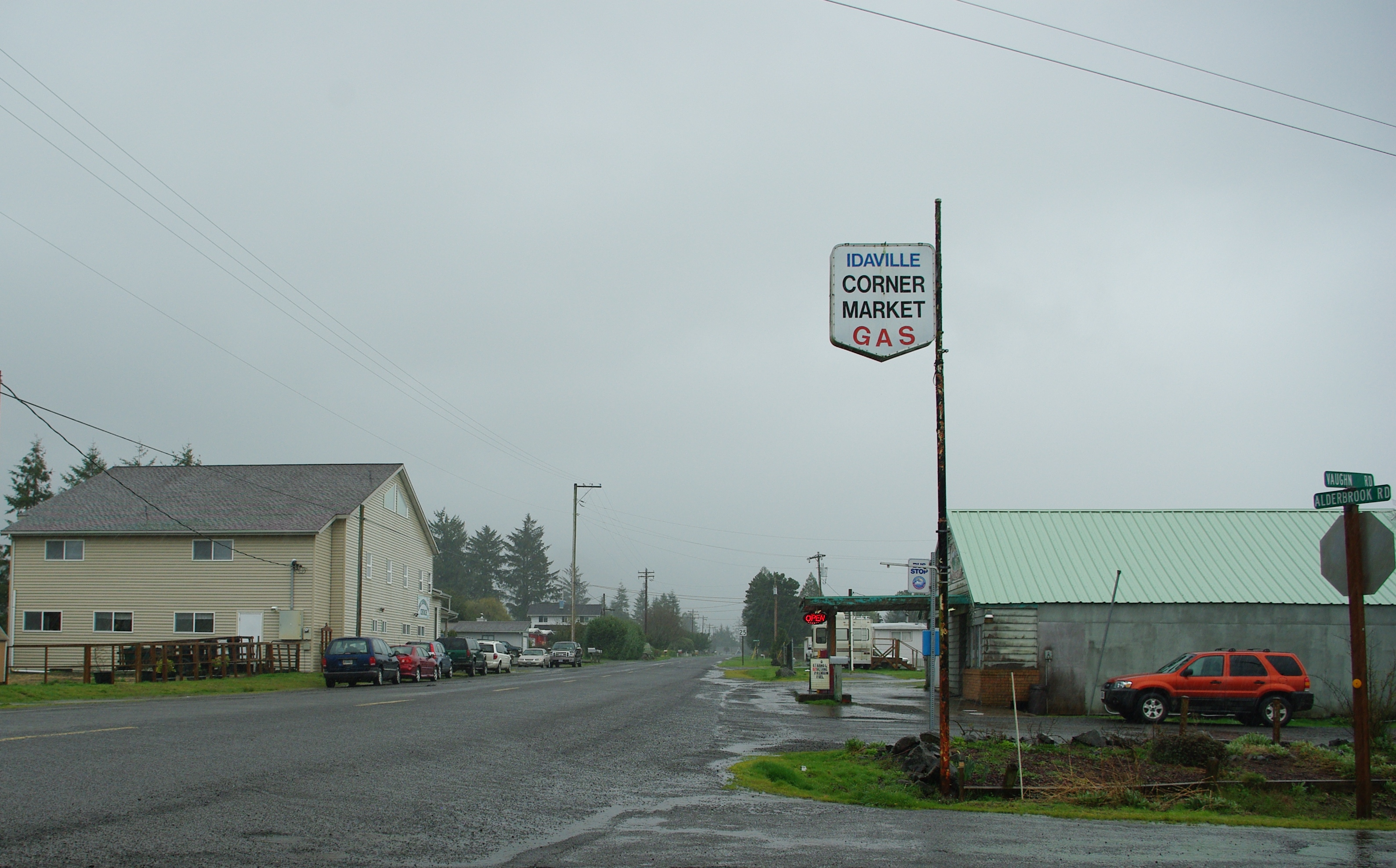 Store and main street in Idaville, Oregon, in Tillamook County.